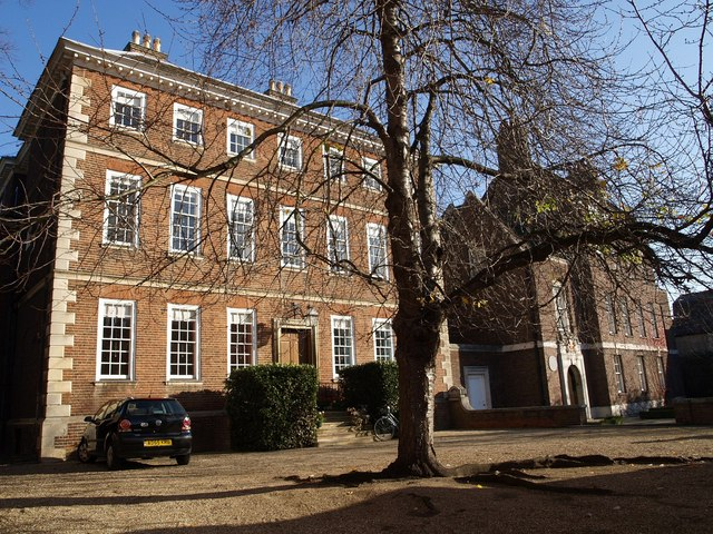 Peterhouse Master's Lodge. Another view of 615406. On the right is Peterhouse Hostel, which is newer by about a century, and is also set back from Trumpington Street.